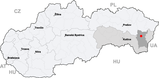 map of Slovakia, city of Michalovce highlighted